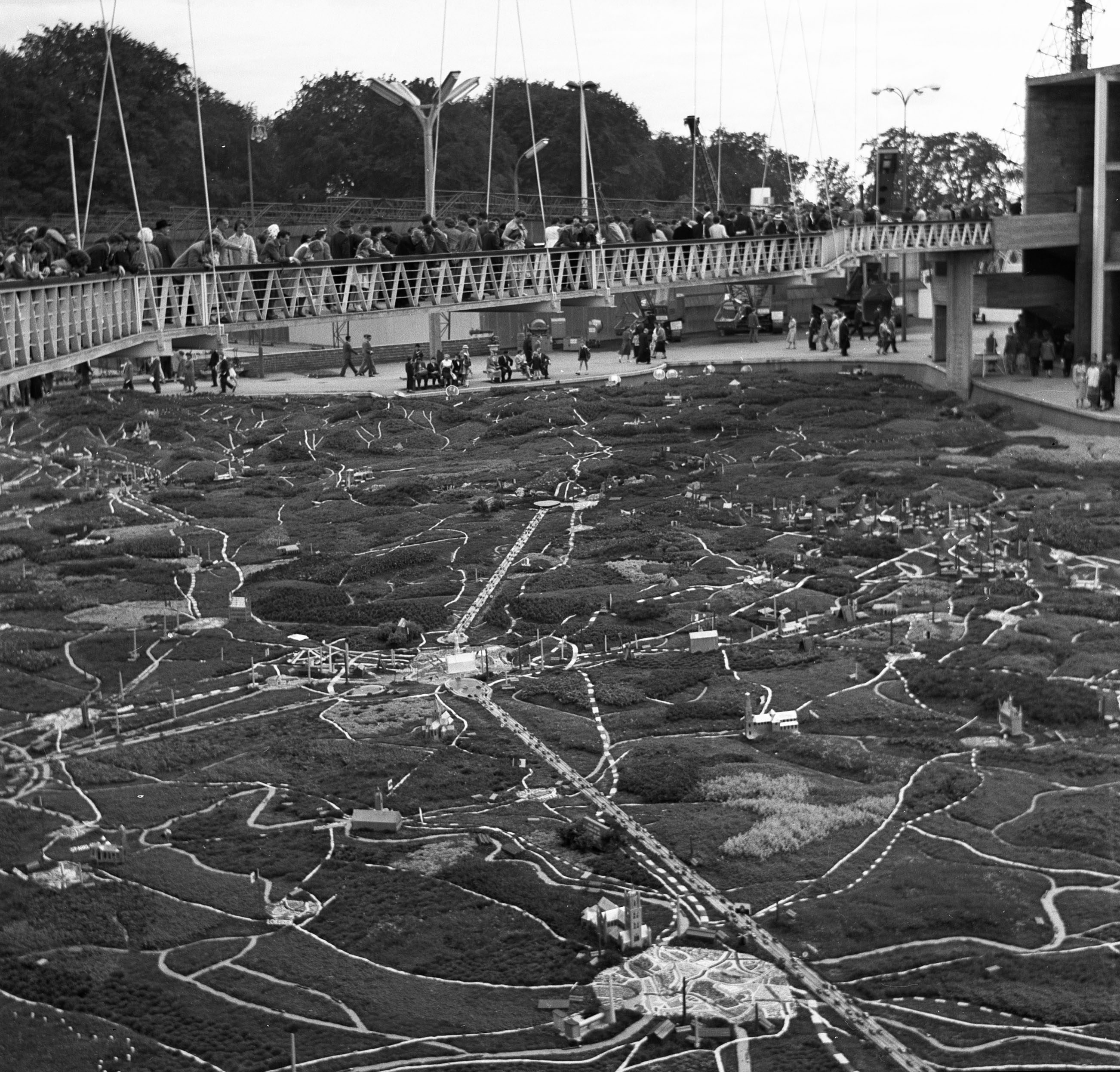 Expo 1958 Belgium in scale 1:3500